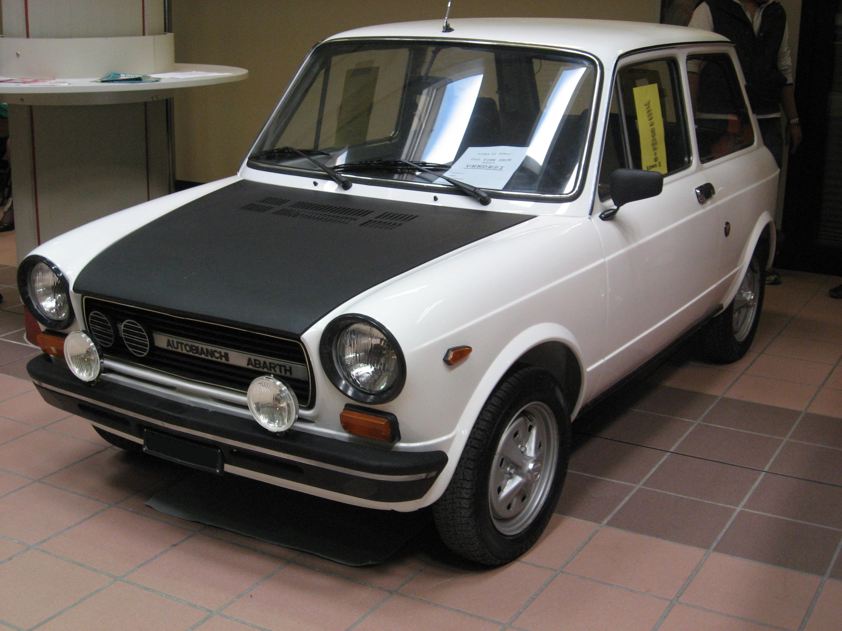 Subject: Autobianchi A112 Abarth 2ª serie del 1973 Author: Luc106 Date: 18 march 2007 City/Country: Forlì (Italy) Event: Old Time Show I release all rights in the public domain.